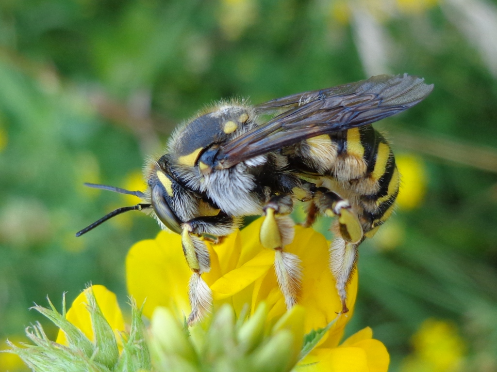 Anthidium florentinum. Found in Rīga town, Latvia.